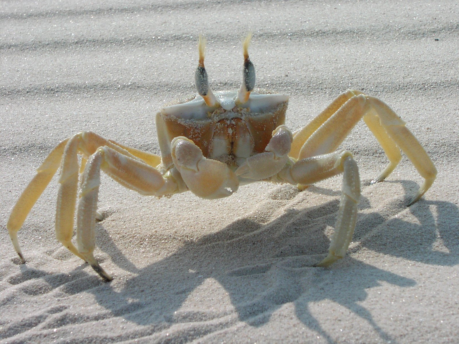 Crab existing at north west coast of Egypt